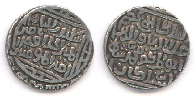 Coin of Alauddin Khilji